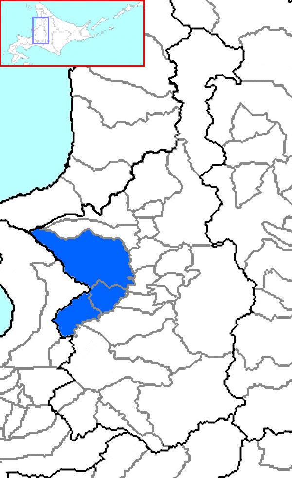 The location of Kabato District in Sorachi Subprefecture, Hokkaido Prefecture, Japan.